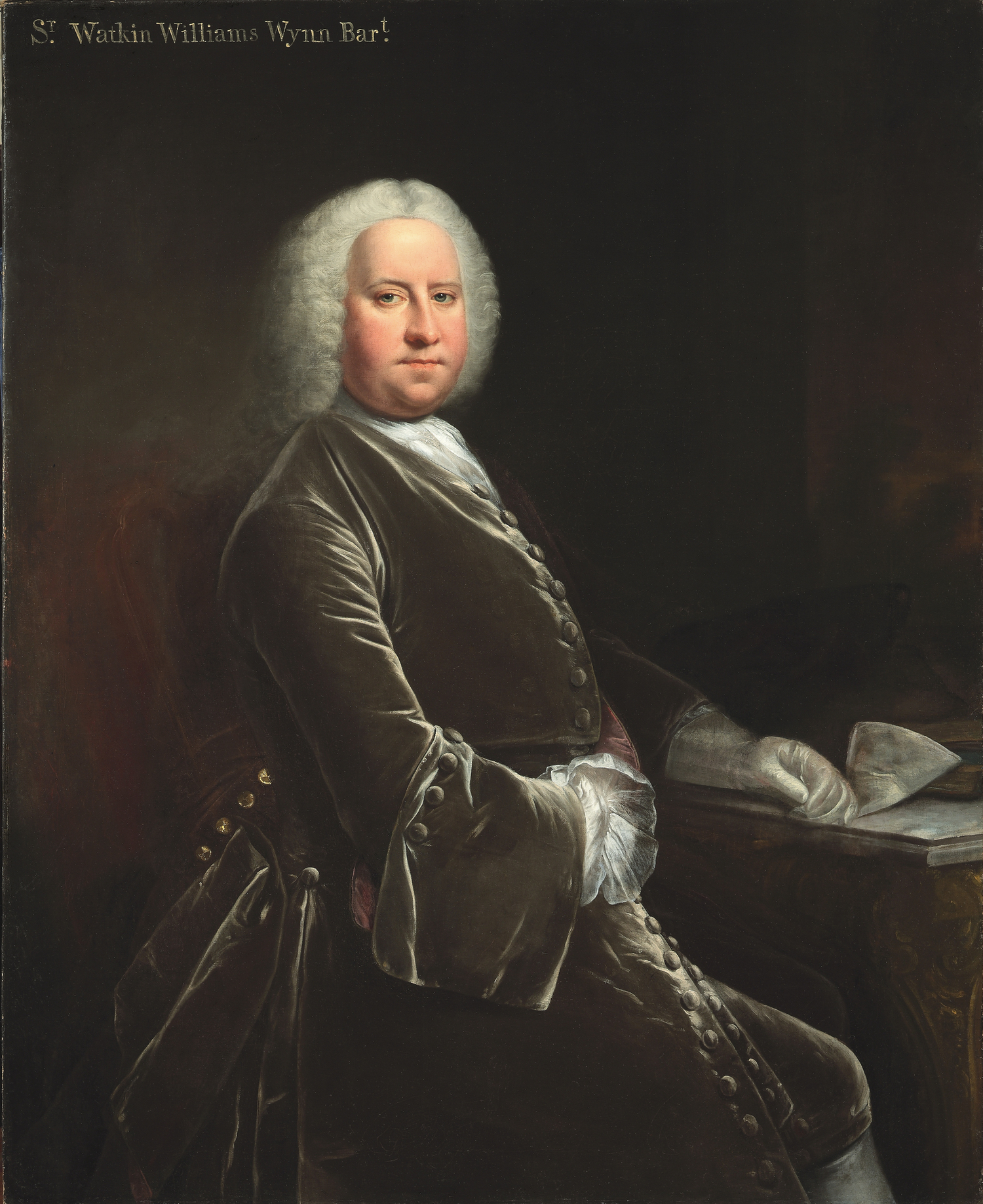 Portrait of Sir Watkin Williams Wynn 3rd Bt, MP (c. 1692–1749) attributed to Thomas Frye (1710–1762)